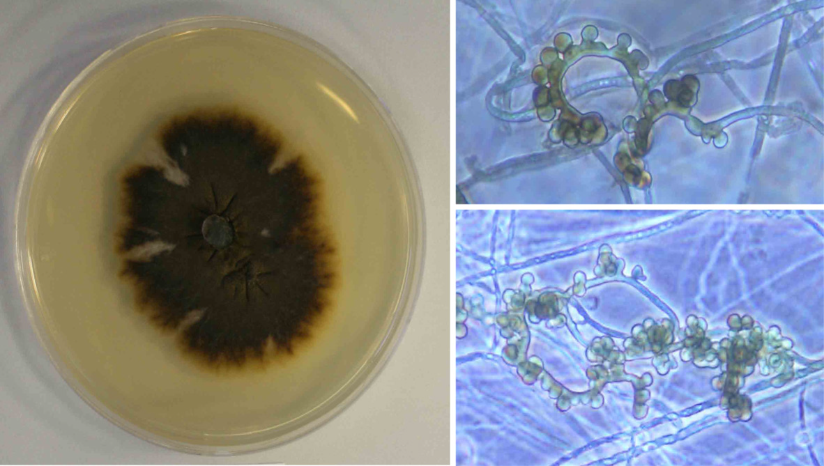 Colony of G. lozoyensis on malt yeast agar (left panel); conidiophores and conidia of G. lozoyensis (right panels)